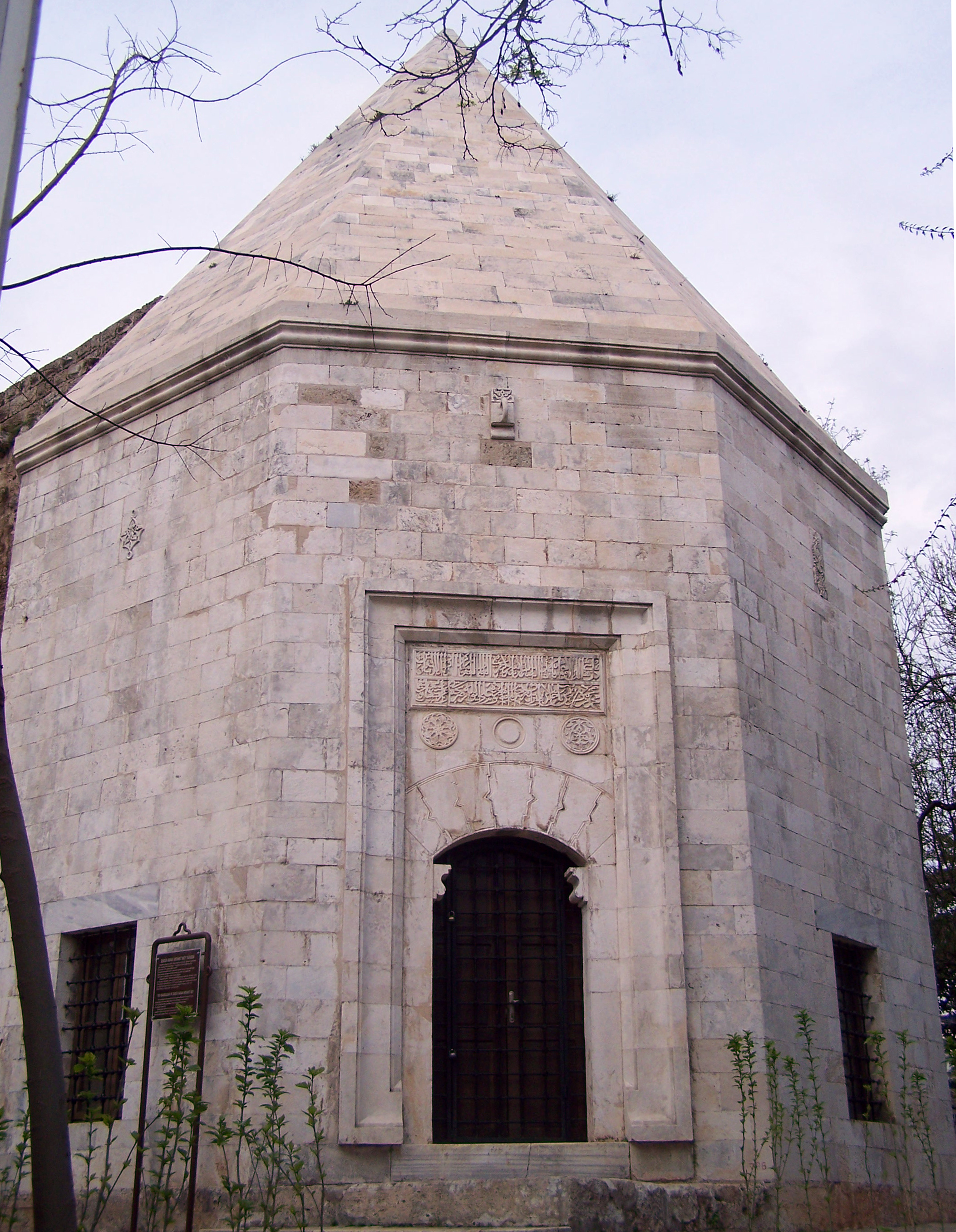 Build by Mehmet Bey in 1377 in Seljuk tradition